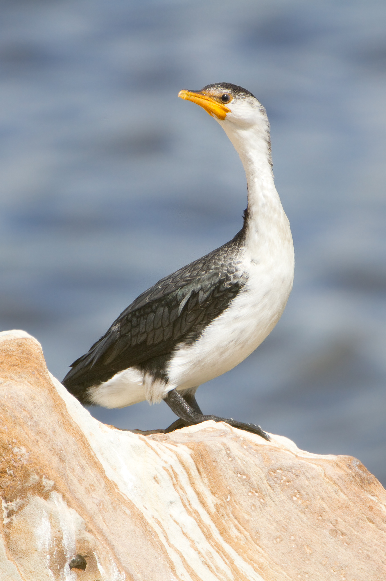 Little Pied Cormorant (Microcarbo melanoleucos), Gould's Lagoon, Austins Ferry, Tasmania, Australia